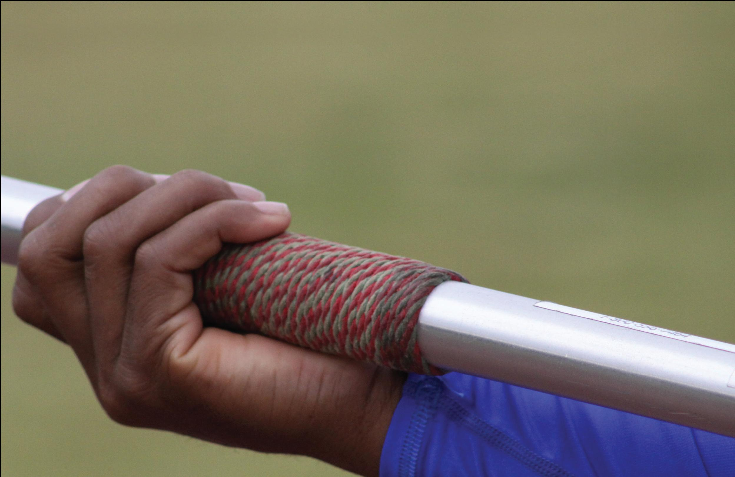 Javelin throw. Grip